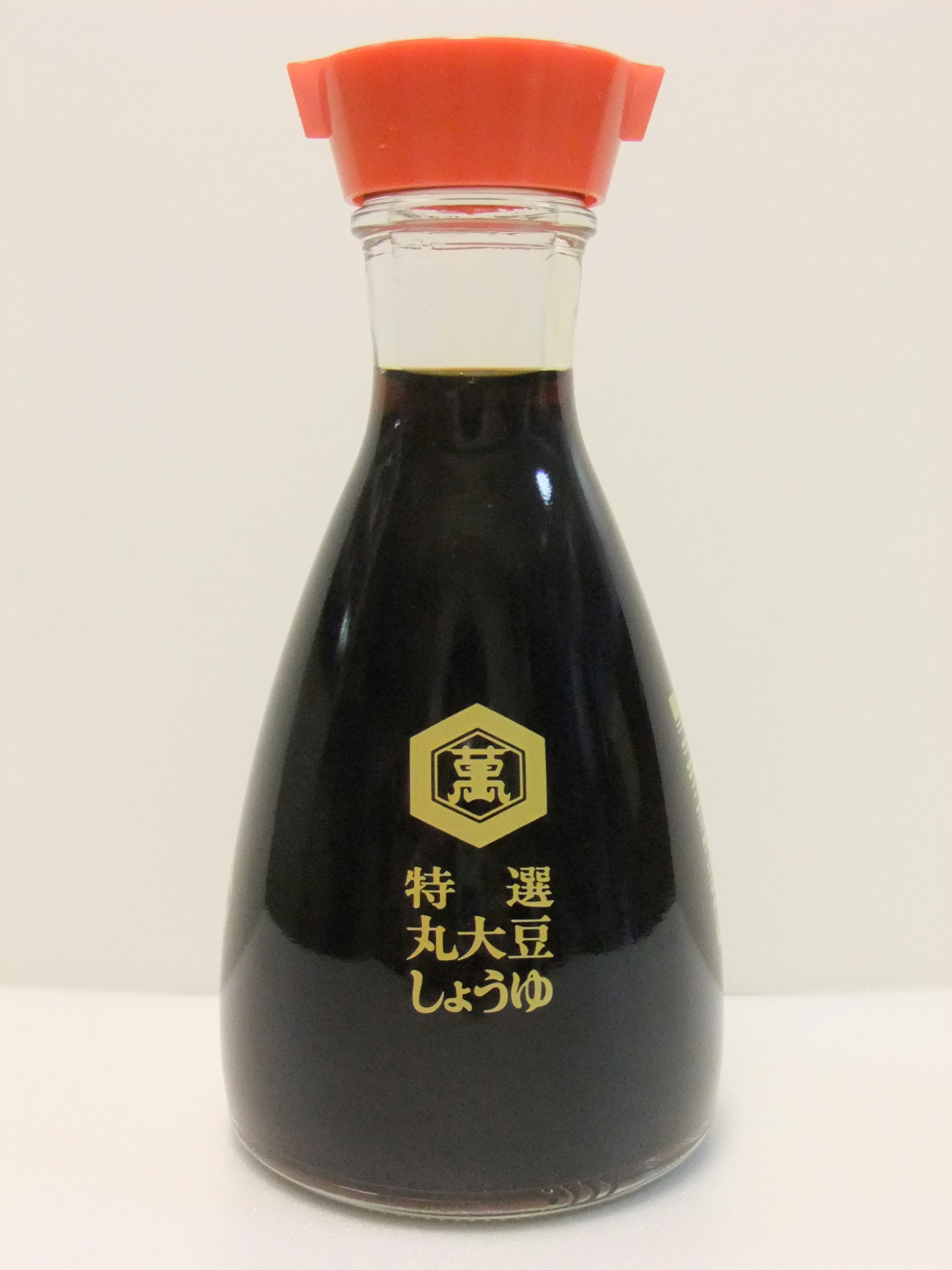 Kikkoman, Soysauce, Table Soy sauce Bottle